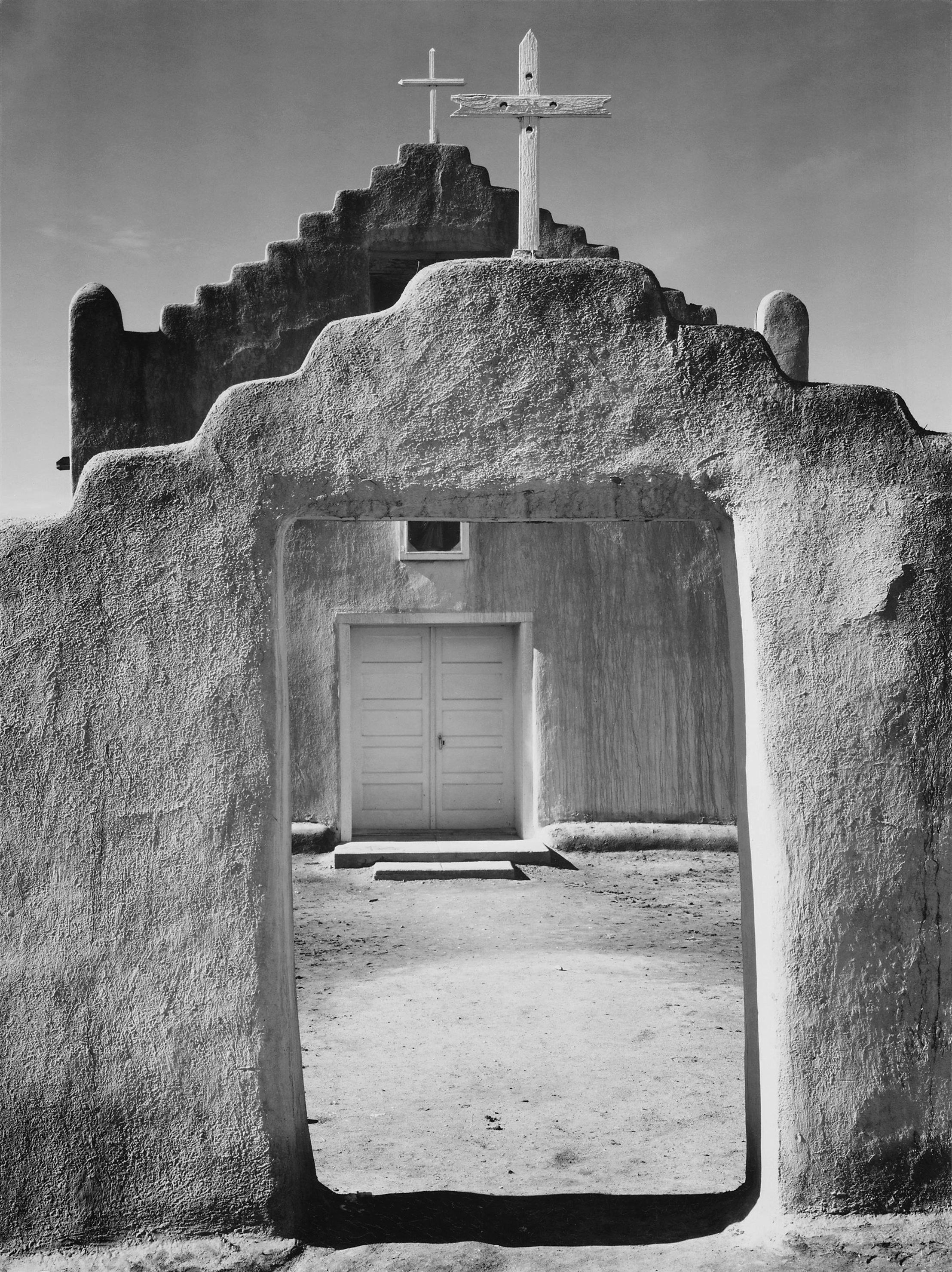 Front view of entrance, "Church, Taos Pueblo National Historic Landmark, New Mexico, 1942" [Misicn de San Gercnimo] (vertical orientation); From the series Ansel Adams Photographs of National Parks and Monuments, compiled 1941–42, documenting the period ca. 1933–42.